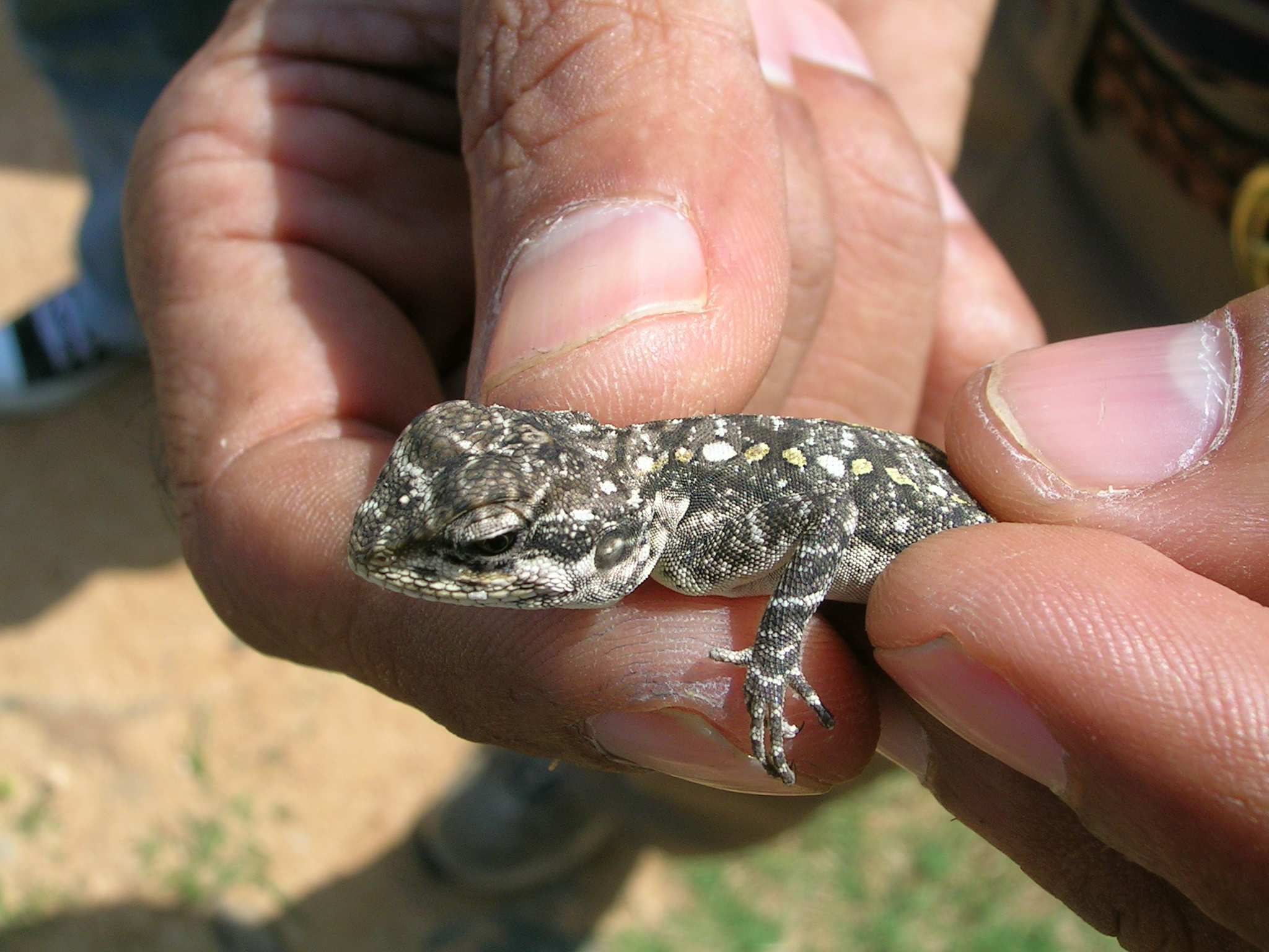 Female Psammophilus dorsalis, Bannerghatta national park